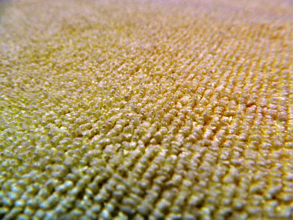 Close-Up view of Microfiber / Microfibre Cloth